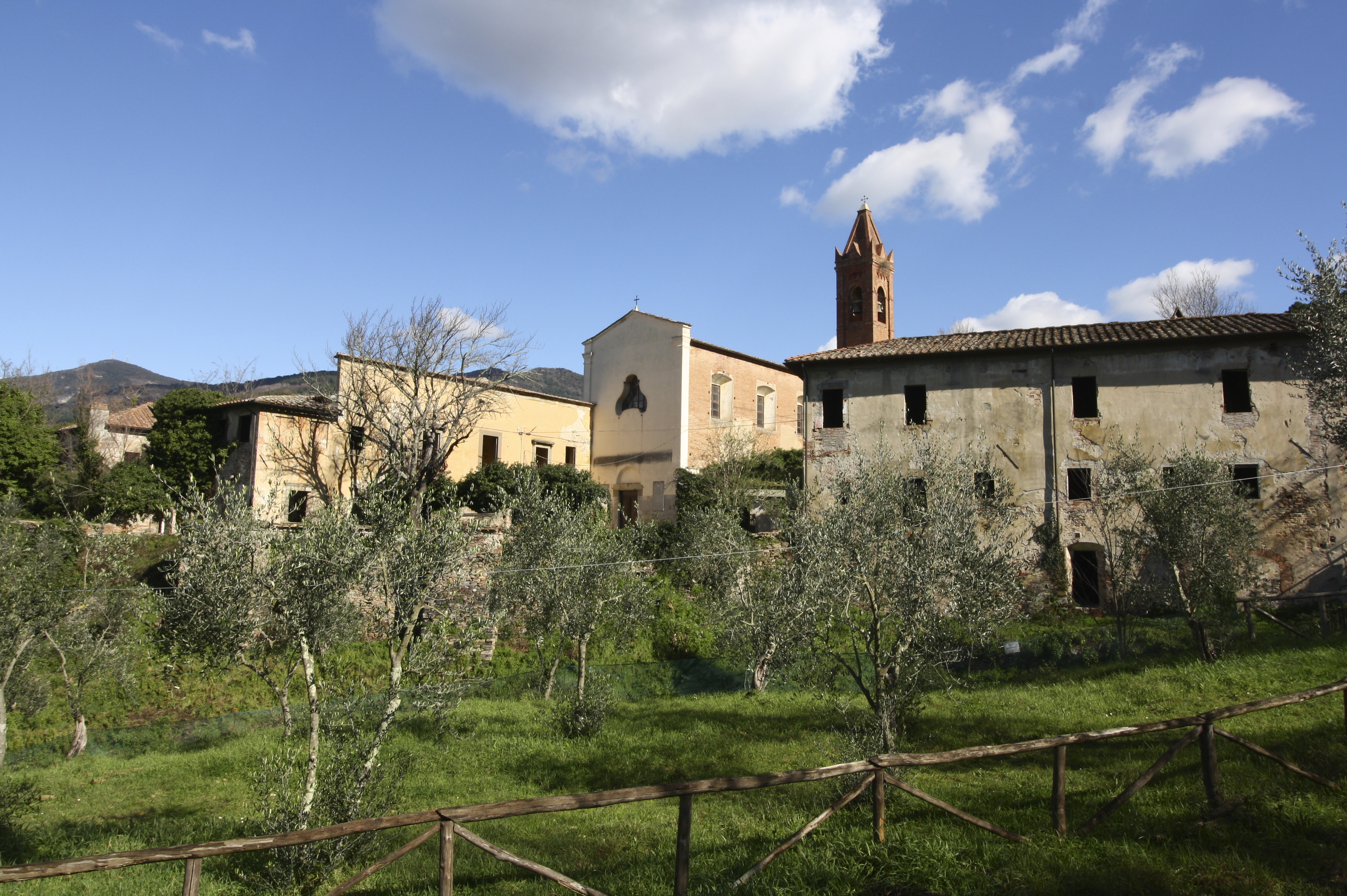 Church and convent Sant'Agostino, Nicosia, hamlet of Calci, Province of Pisa, Tuscany, Italy